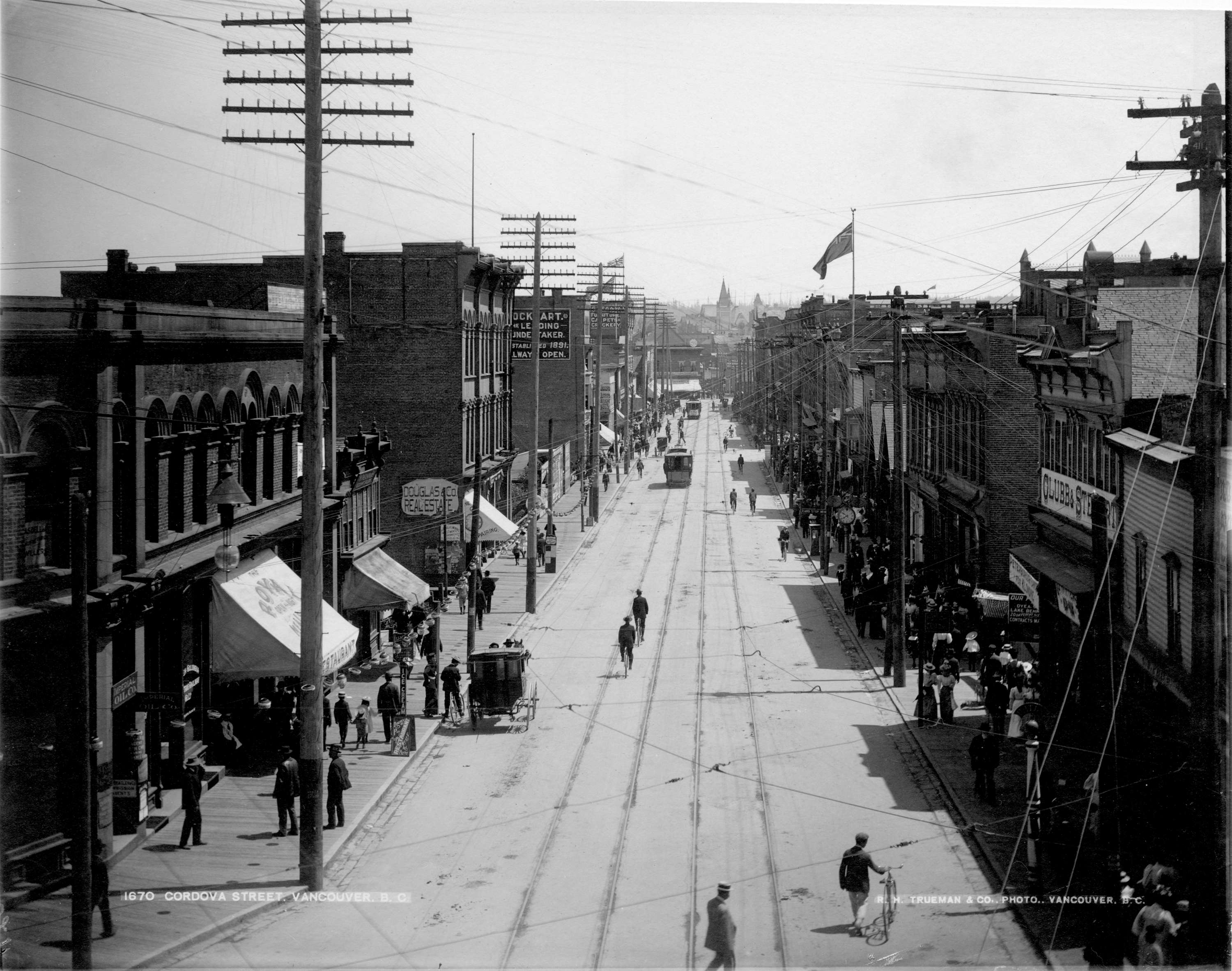 Cordova Street, Vancouver, B.C. [looking east from Cambie Street]. Douglas & Co. Real Estate and the Royal Restaurant.